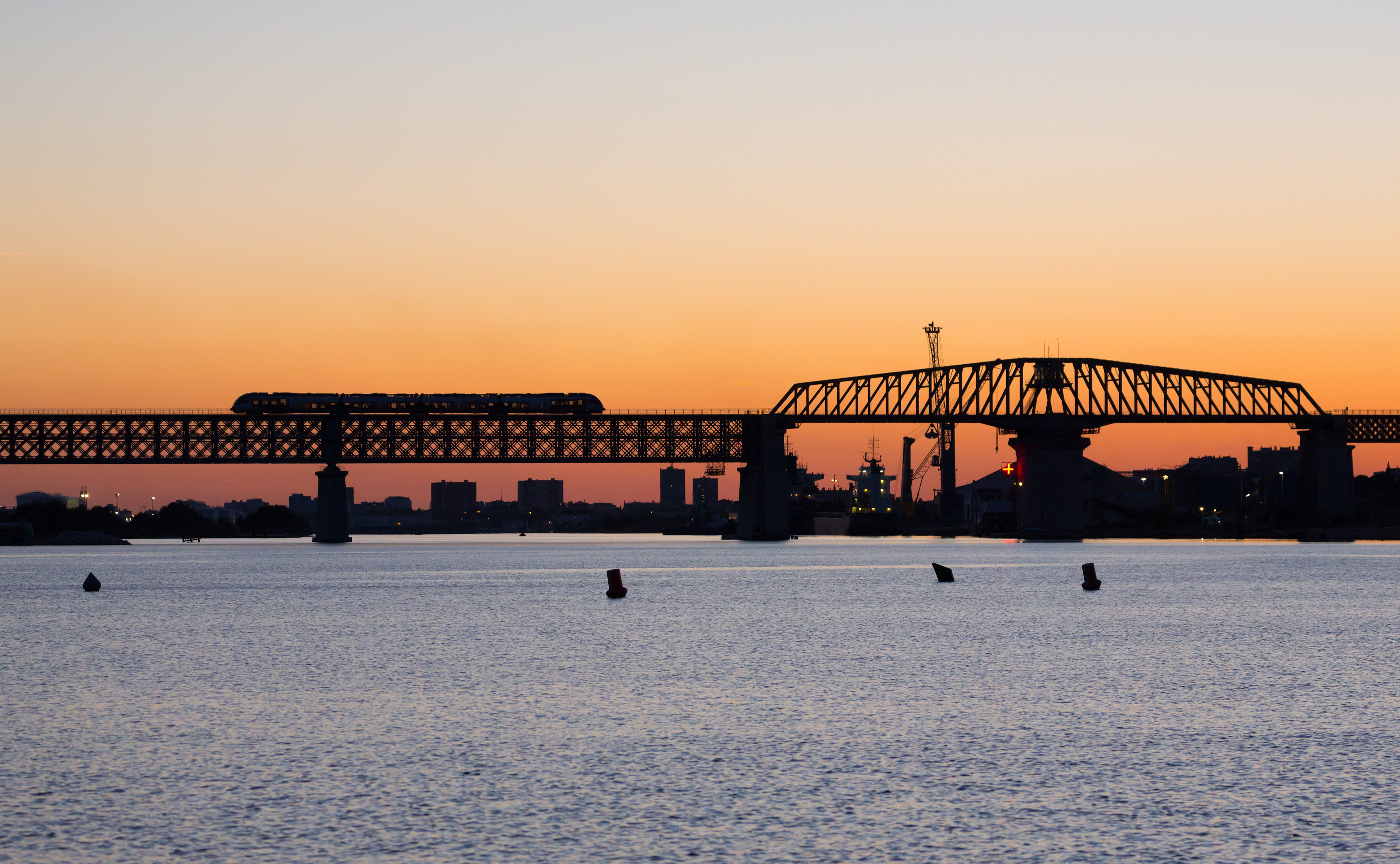 A SNCF B 81500 unit crosses the Pont de Caronte near Martigues, France.